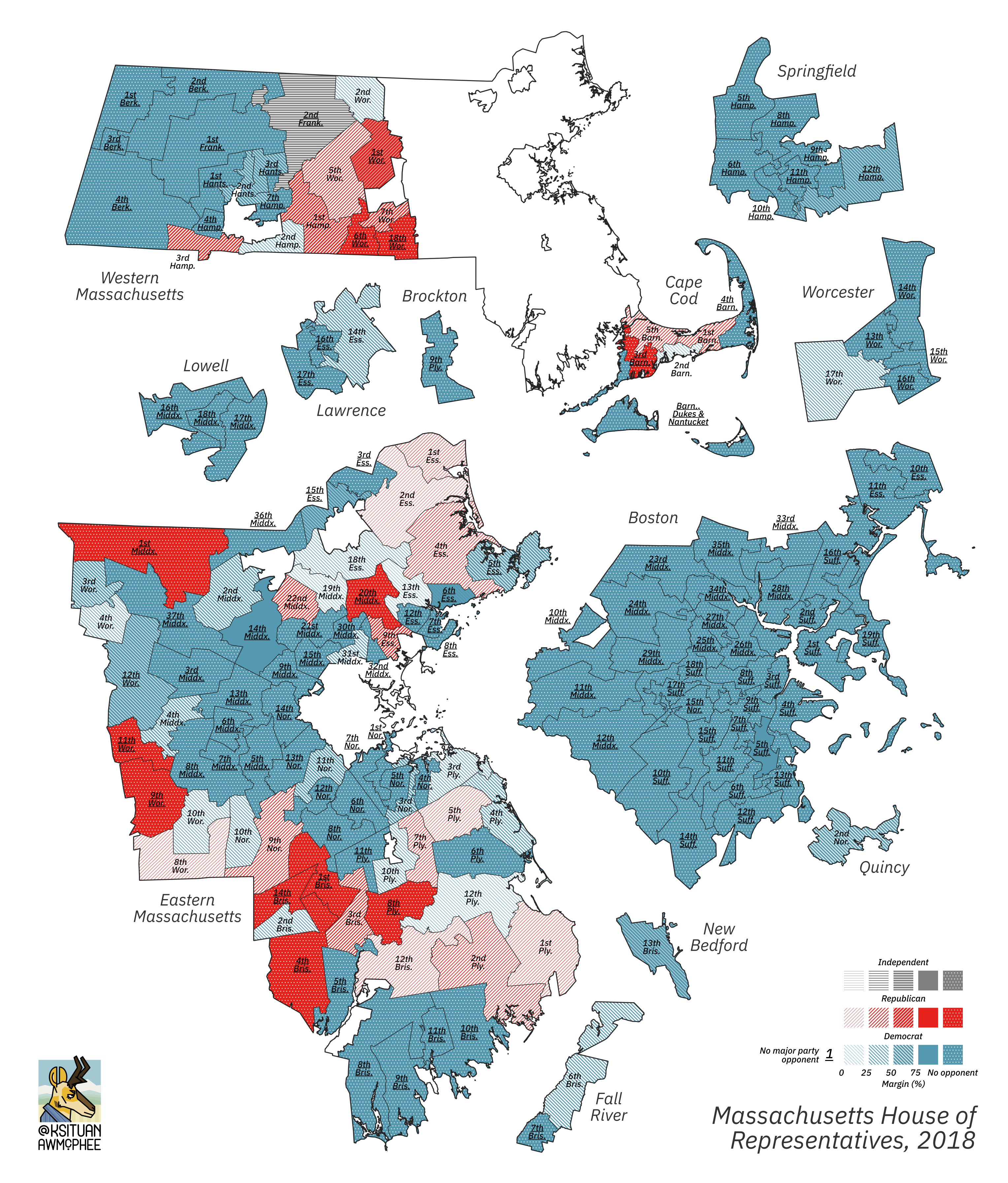 A series of state legislative election maps, created from open data during the summer of 2020. Their common visual style is designed to accomodate all of the unique features of American democracy. They were created using QGIS and Inkscape, two free programs. Please use freely and contact the author with any inquiries about visualizing election data with open-source tools.